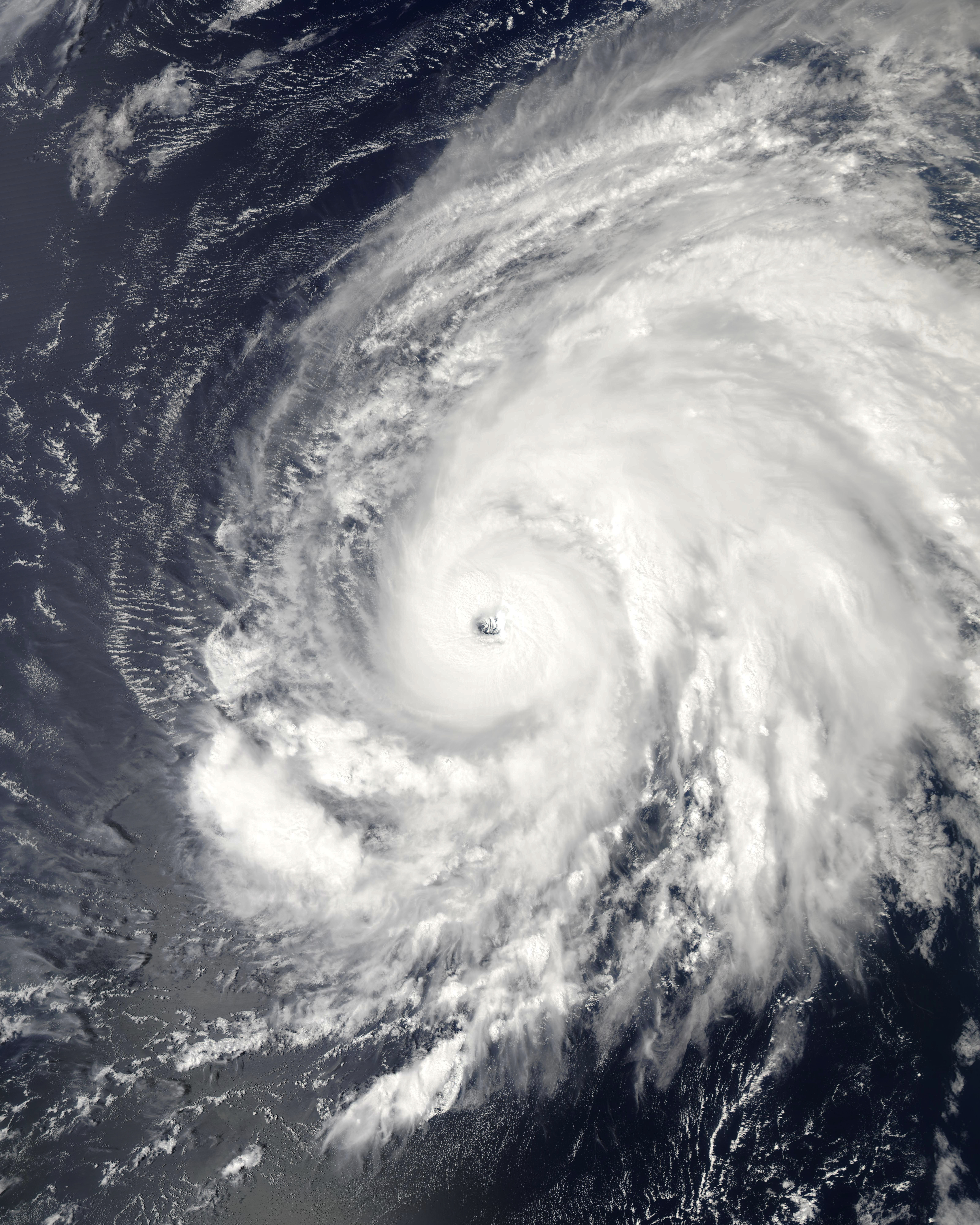 Hurricane Lorenzo on September 26, 2019